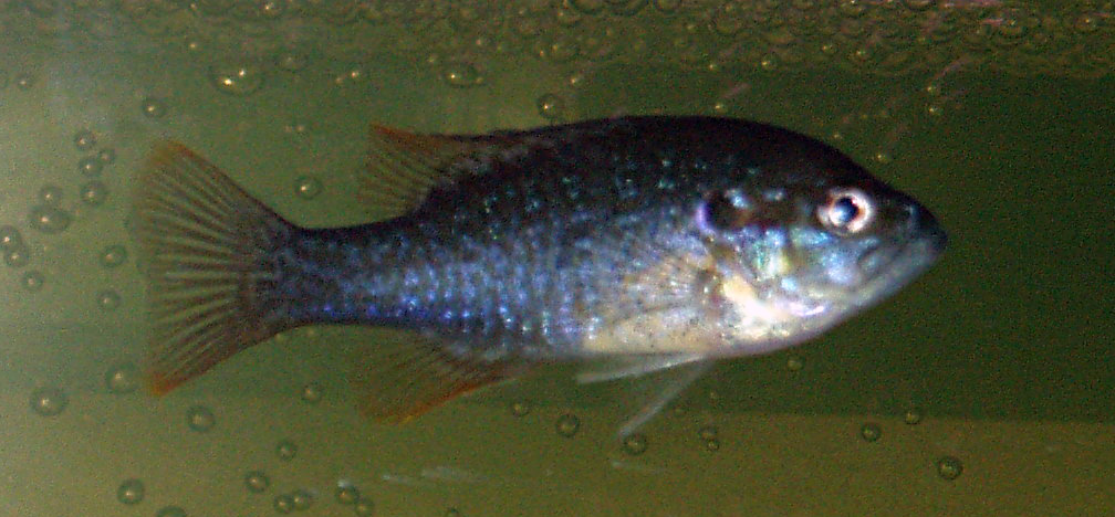 A juvenile green sunfish (Lepomis cyanellus) in an aquarium